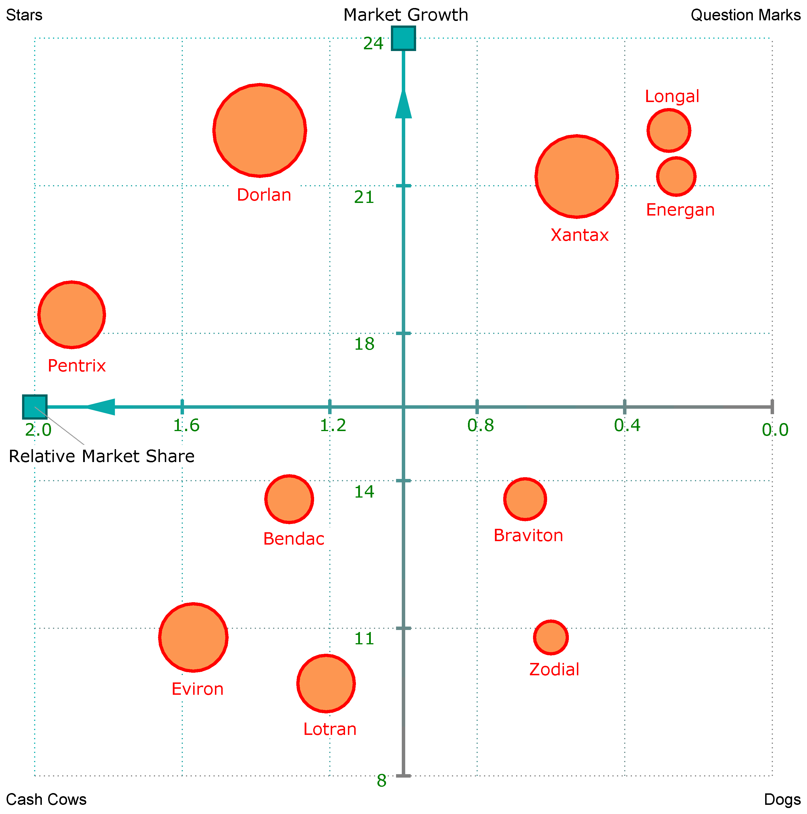 Folio plot of a BCG matrix analysis using an example data set. The folio plot visualizes the relative market share of a portfolio (hence the name) of products versus the growth of their market. The measurements are visualized as squares, and the objects as circles that differ in size by their sales volume. The PNG was created with Foliomap.